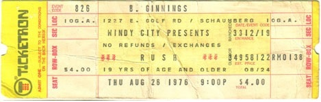 Rush 1976 ticket concert